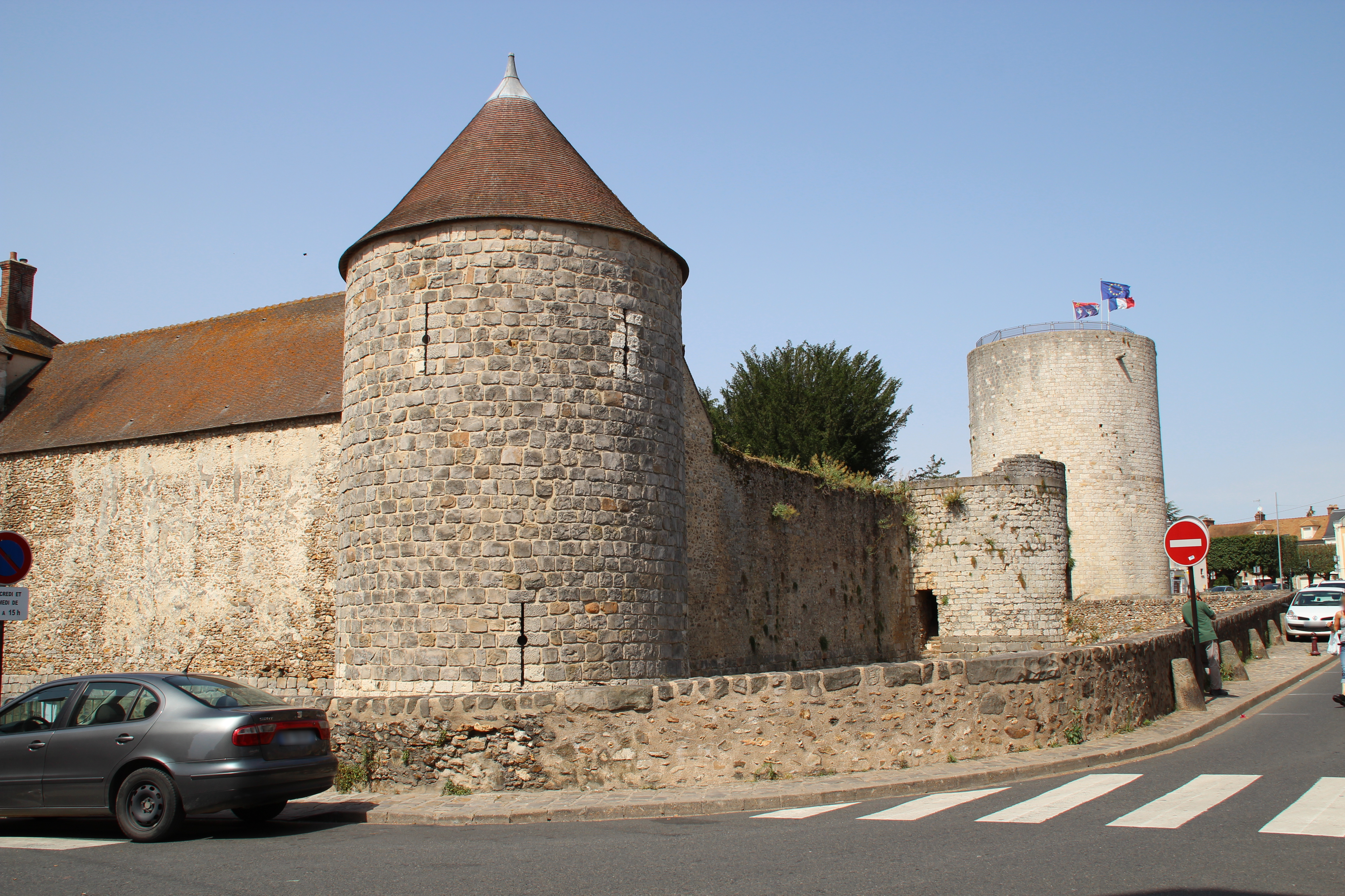 Castle of Dourdan, France